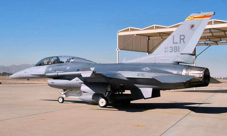 USAF F-16D block 32 #87-0381 assigned to the 944th FW taxis onto the runway at Luke AFB to commence another training mission. This F-16 was assigned to the United States Air Force Demonstration Team (Thunderbirds) between 1992 and 1999. [USAF photo]